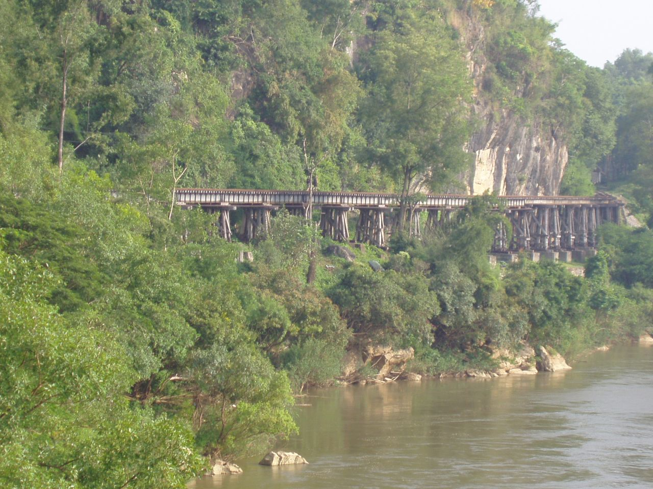 Part of the "death railway" built during the II world war.